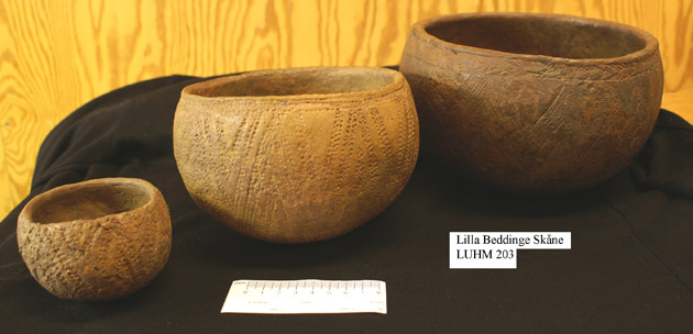 Battle Axe culture pottery from the cemetary at Lilla Bedinge, Skåne, Sweden